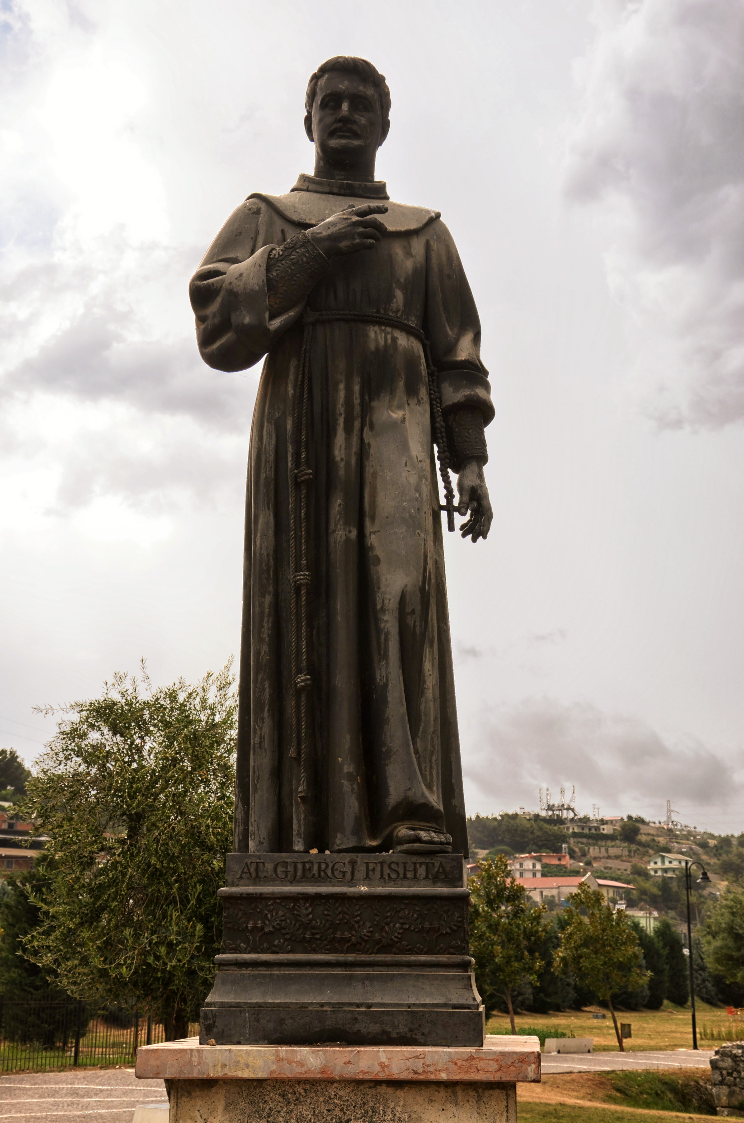 Statue of Gjergj Fishta in Lezhë